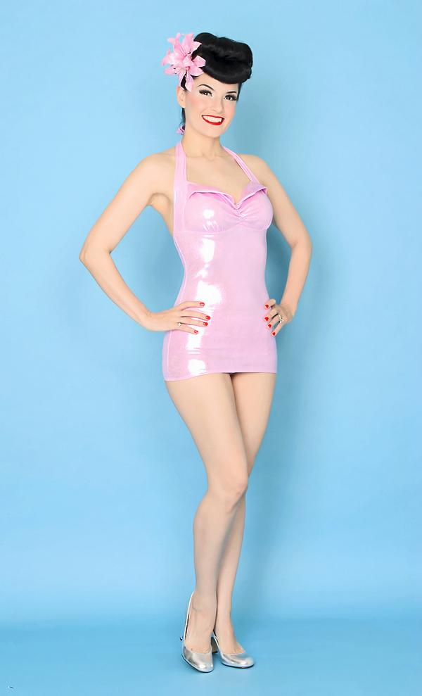 American vintage fashion model Bernie Dexter.